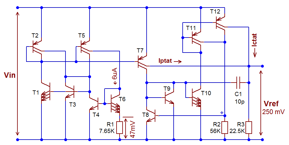 Current-adding subbandgap reference.